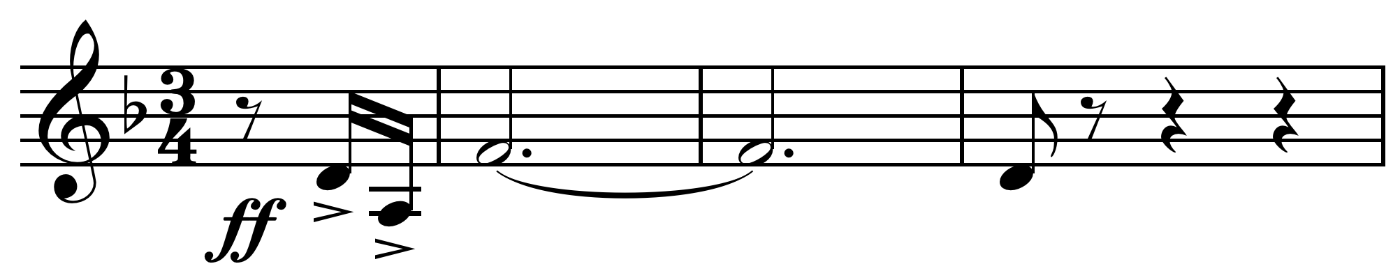 Created by Hyacinth (talk) 00:46, 17 February 2008 using Sibelius 5.